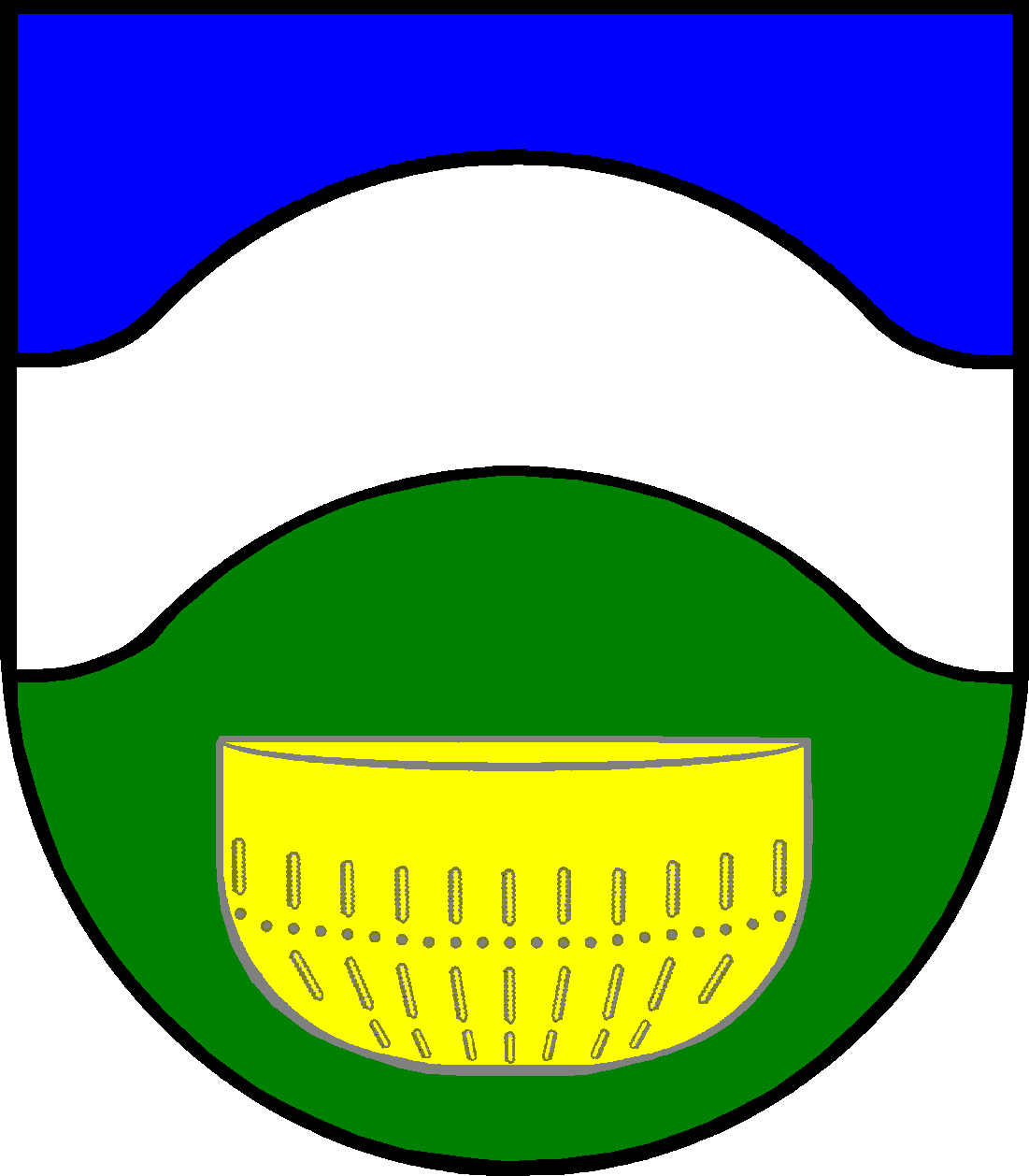 Coat of arms of the municipality Gönnebek in Schleswig-Holstein, Germany.